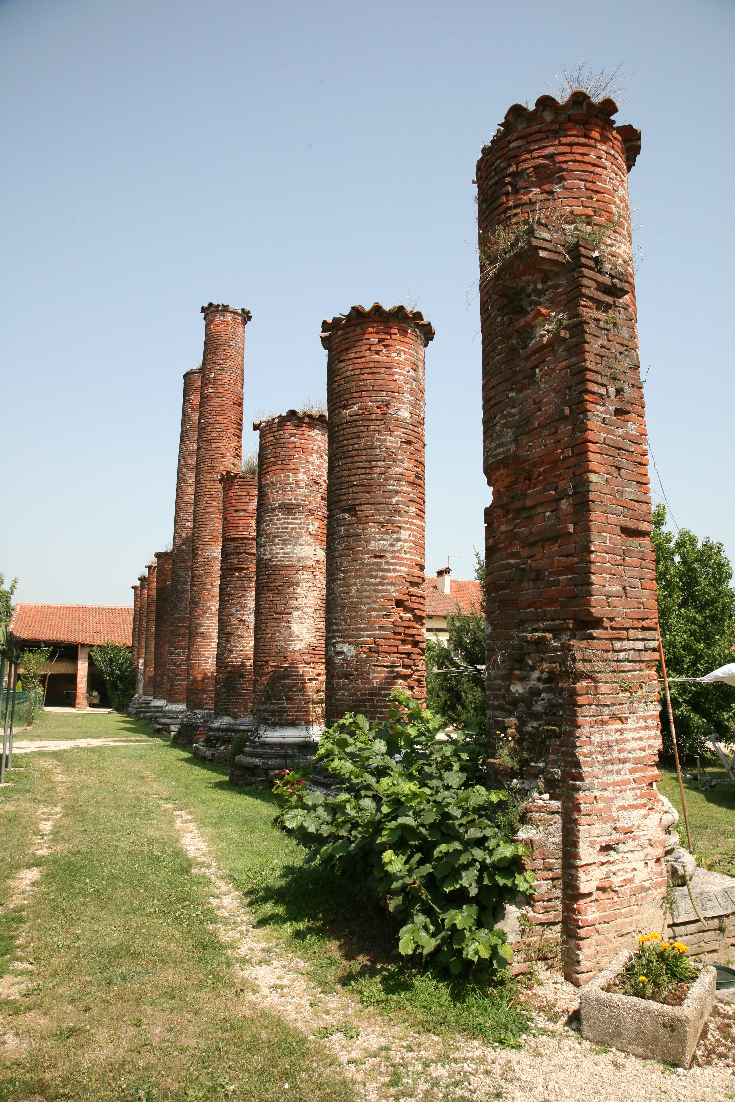 Only columns exists of the villa Palladio concieved on behalf of Iseppo Porto